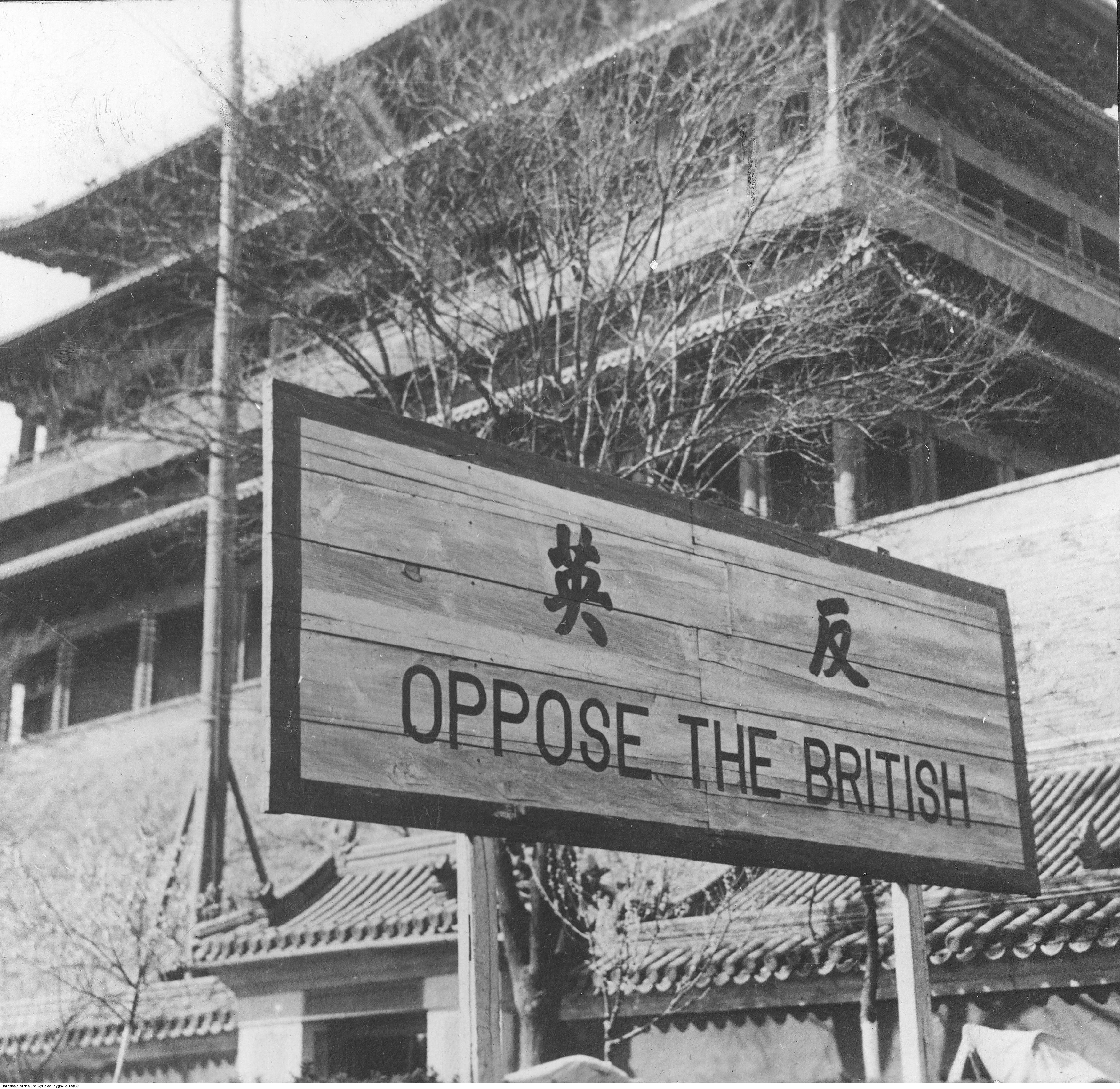 Oppose the British sign - Beijing (May 1940)